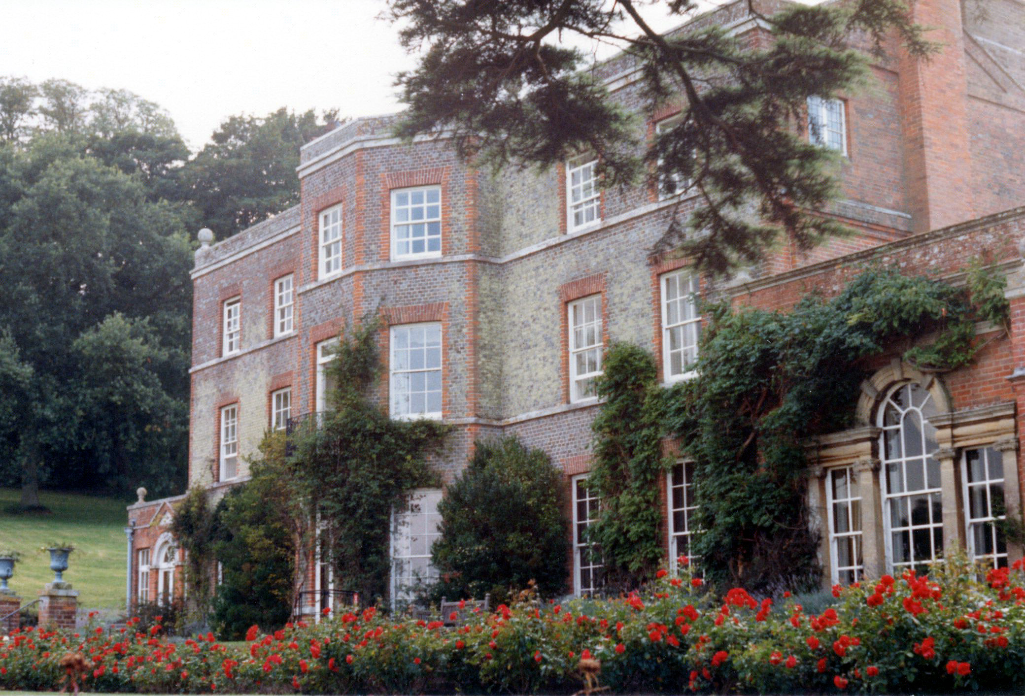 Nunwell House, Isle of Wight, the home of the Oglander family until 1982